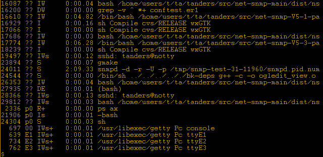 Screen shot of a Unix system displaying a list of processes. Tinted amber.